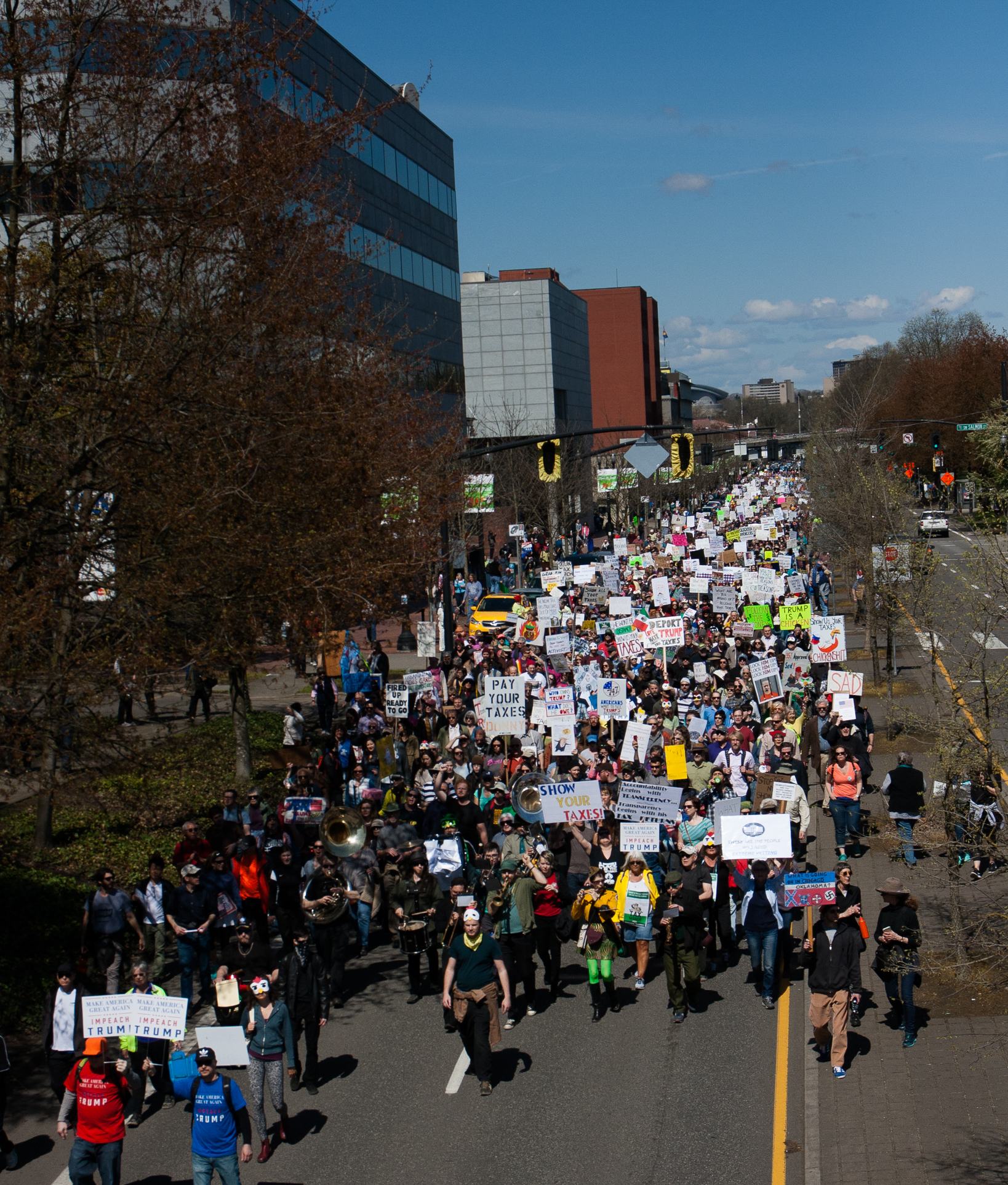 Trump Tax March PDX Portland, OR April 15, 2017